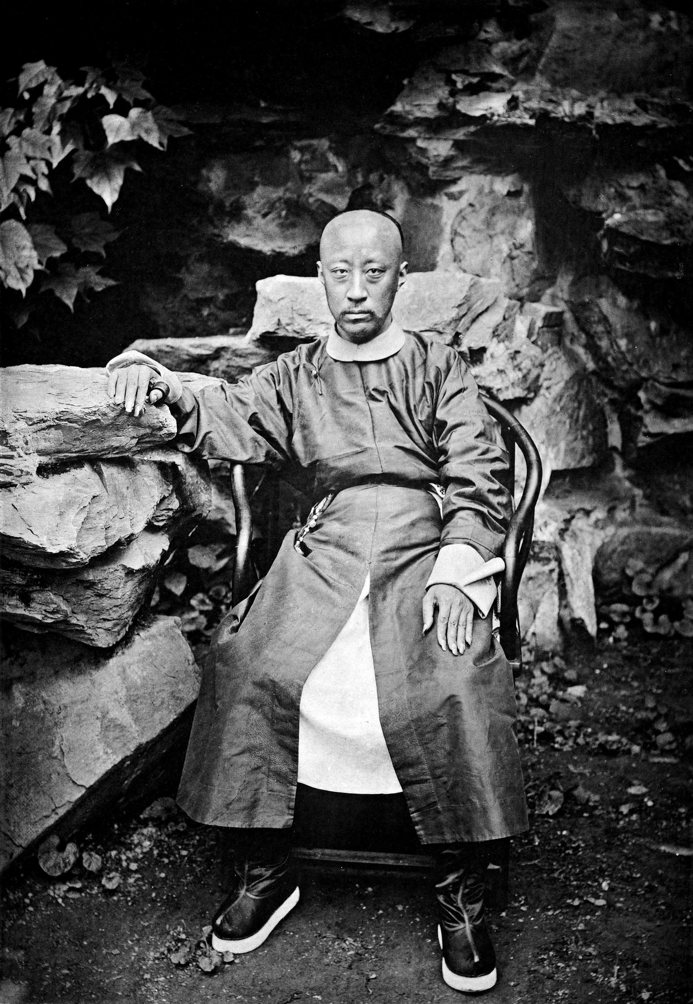 John Thomson: PINCE KUNG, now about forty years of age, is the sixth son of the Emperor Tao Kwang, who reigned from A.D. 1820 to 1850. He is a younger brother of the late Emperor Hien-foong, and, consequently an uncle to the reigning Emperor Tung-che. Prior to 1860 he was little known beyond the precincts of the Court: but, when the Emperor fled from the summer palace, it was he who came forward to meet the Ministers of the Allied Powers, and negotiate the conditions of peace. He holds several high civil and military appointments, the most important that of member of the Supreme Council, a department of the Empire resembling most nearly the Cabinet with us. Quick of apprehension, open to advice, and comparatively liberal in his views, he is the acknowledged leader of that small division among Chinese politicians who are known as the party of progress. Independently of his various offices, Prince Kung, as his title denotes, is a member of the highest order of Chinese nobility; an expression which, to prevent misconception, we must beg our readers' permission to explain. There have been from the most ancient times in China five degrees of honour, to which men whose services have been eminent may attain; the titles vesting, as we should say, in remainder to their heirs male. The latter, however, cannot succeed without revival of their patent, and even then, as a rule, the title they succeed to is one degree less honourable than that of their predecessor ; so that were the usage in vogue with us a dukedom would dwindle to a baronetcy in five generations. The Manchu family, which rules the country, or to speak more correctly those of the stock who are within a certain degree of the Imperial line, have no less than eighteen orders of nobility, liable, however, like the old system spoken of above, to gradual extinction, except in a few particular instances where the patent ensures the title in perpetuity. Prince Kung received such a patent in 1865.